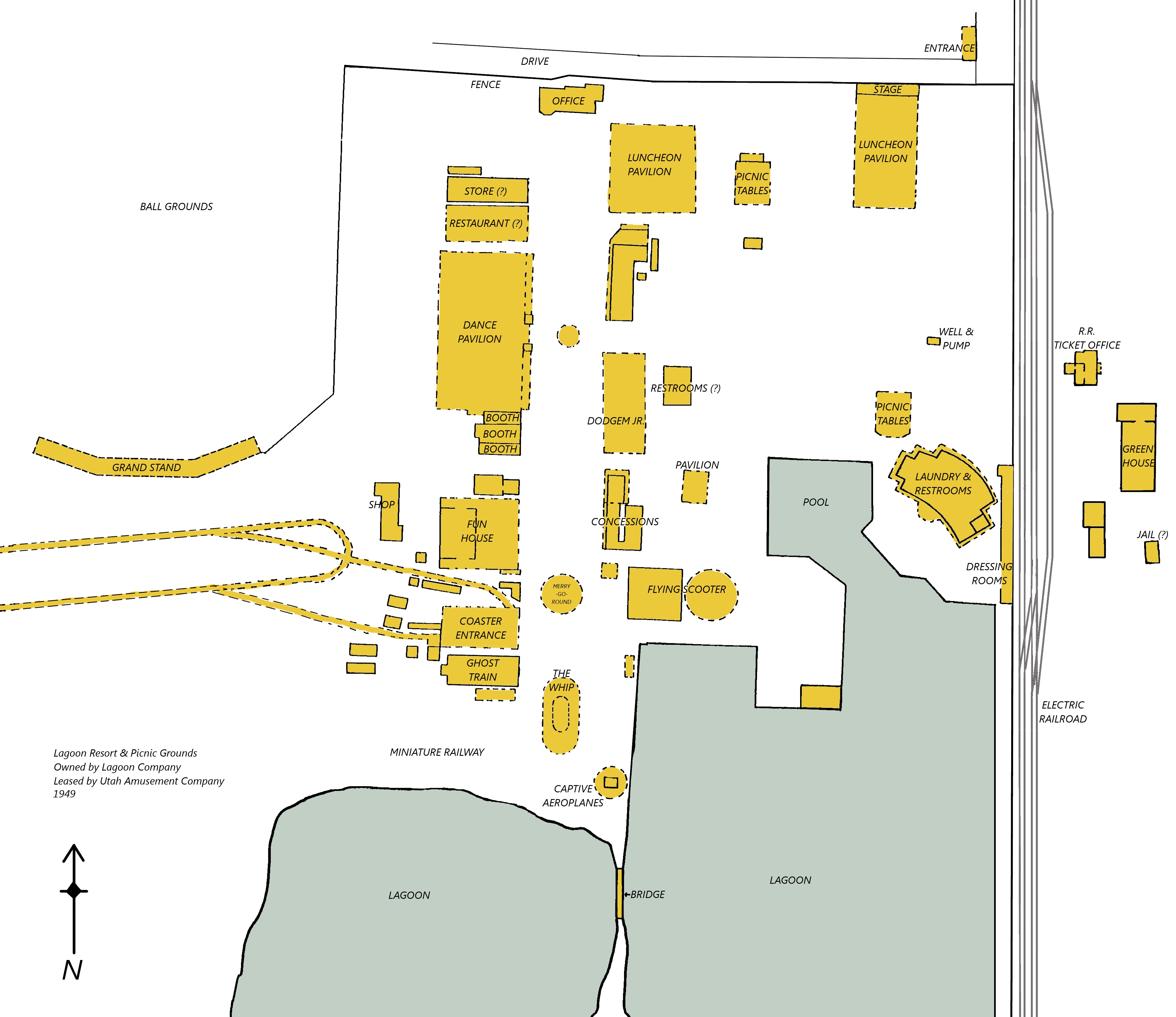 Map of how Lagoon Amusement Park looked in 1949